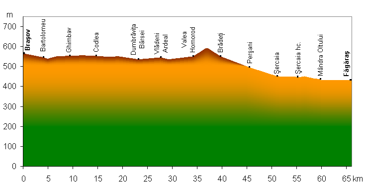 elevation profile of the railway track Brasov-Fagaras